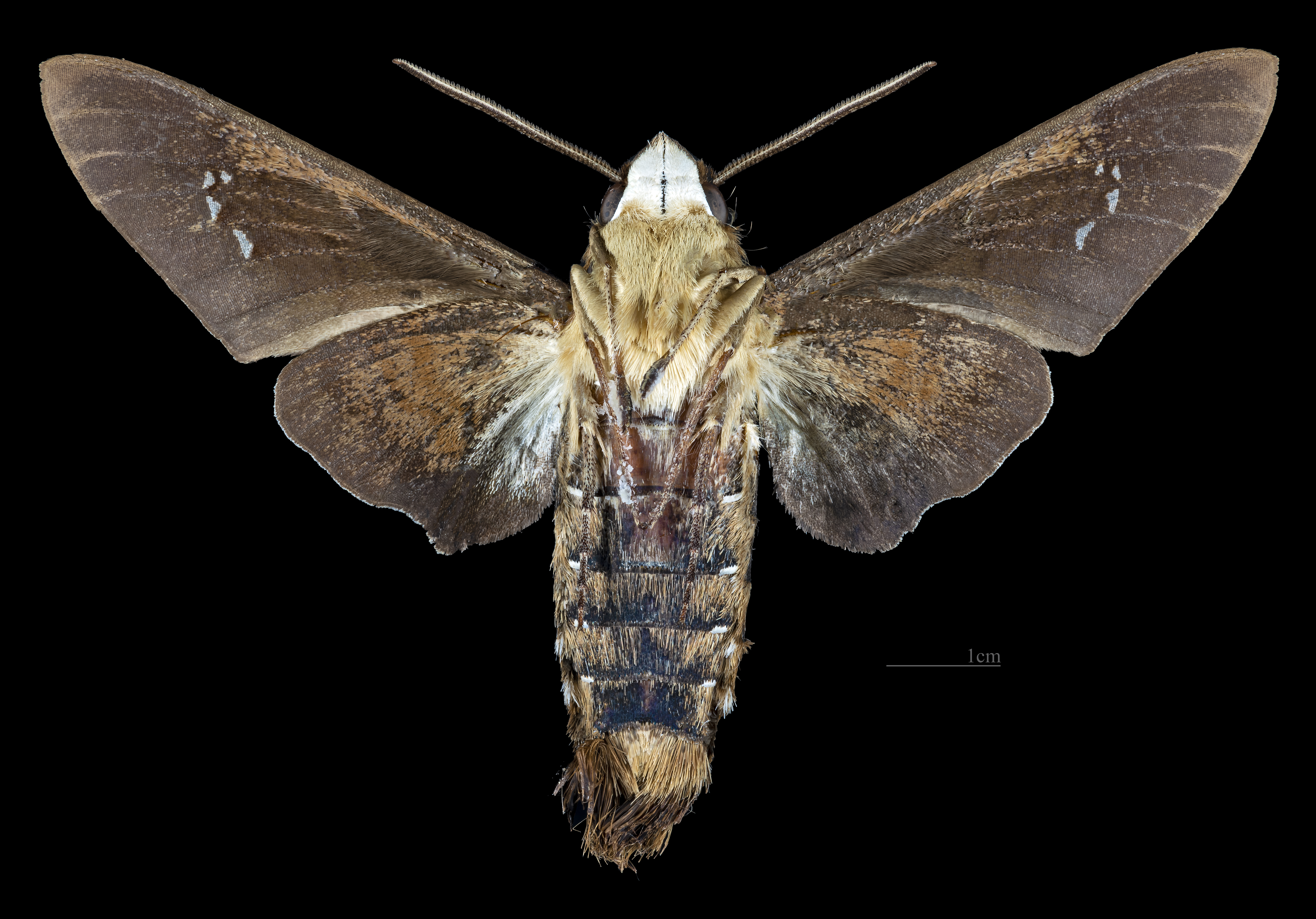 Aellopos tantalus - △ Ventral side Collection of the Mathematician Laurent Schwartz